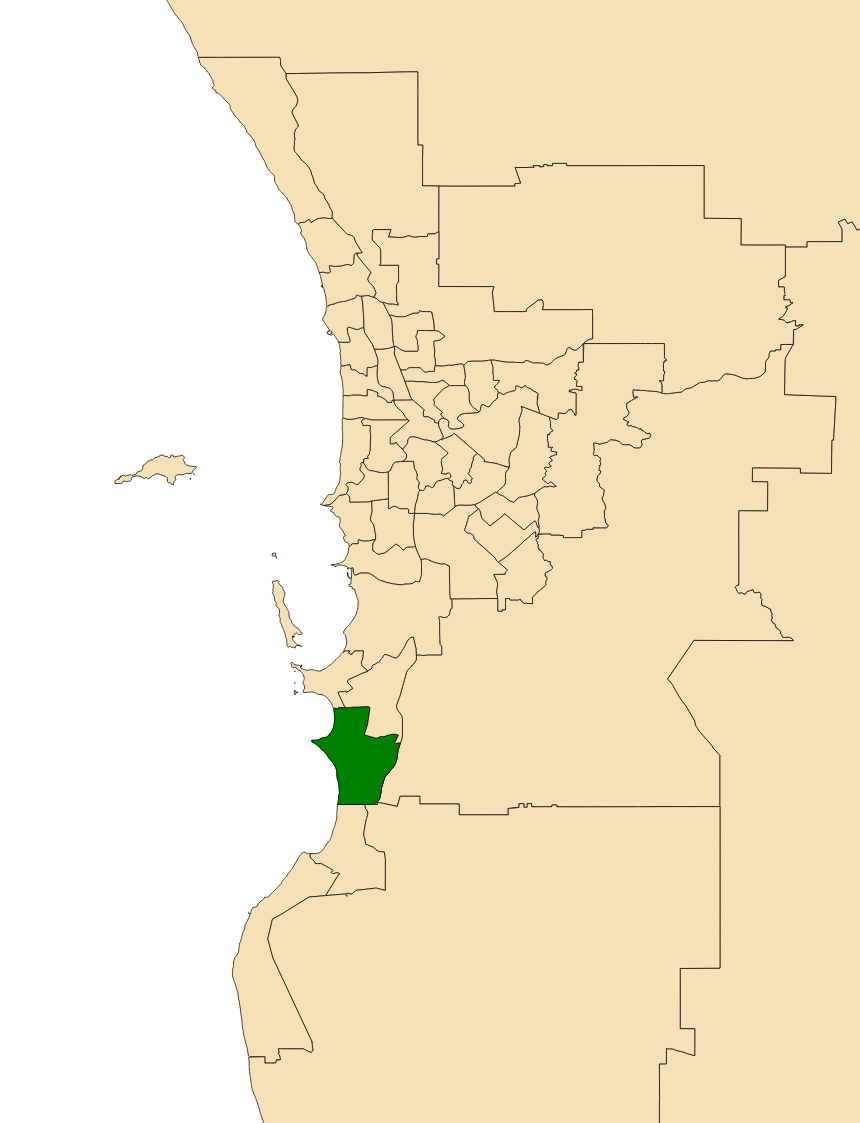 Location of the electoral district of Warnbro in the Perth metropolitan area, Western Australia as of the 2017 WA state election.